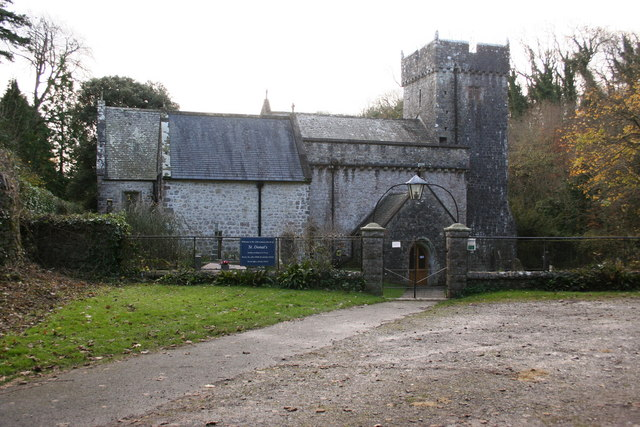 St Donat's Church